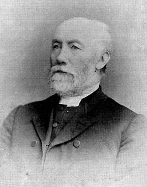 Rev. Albert Carman (1833-1917) was a Canadian Methodist minister and leader